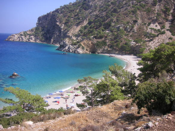 Kárpathos. Apella Beach, Kárpathos.